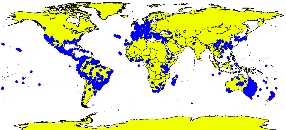 Erigeron bonariensis distribution map: Occurrence data from GBIF: (21st March 2019) GBIF Occurrence Download